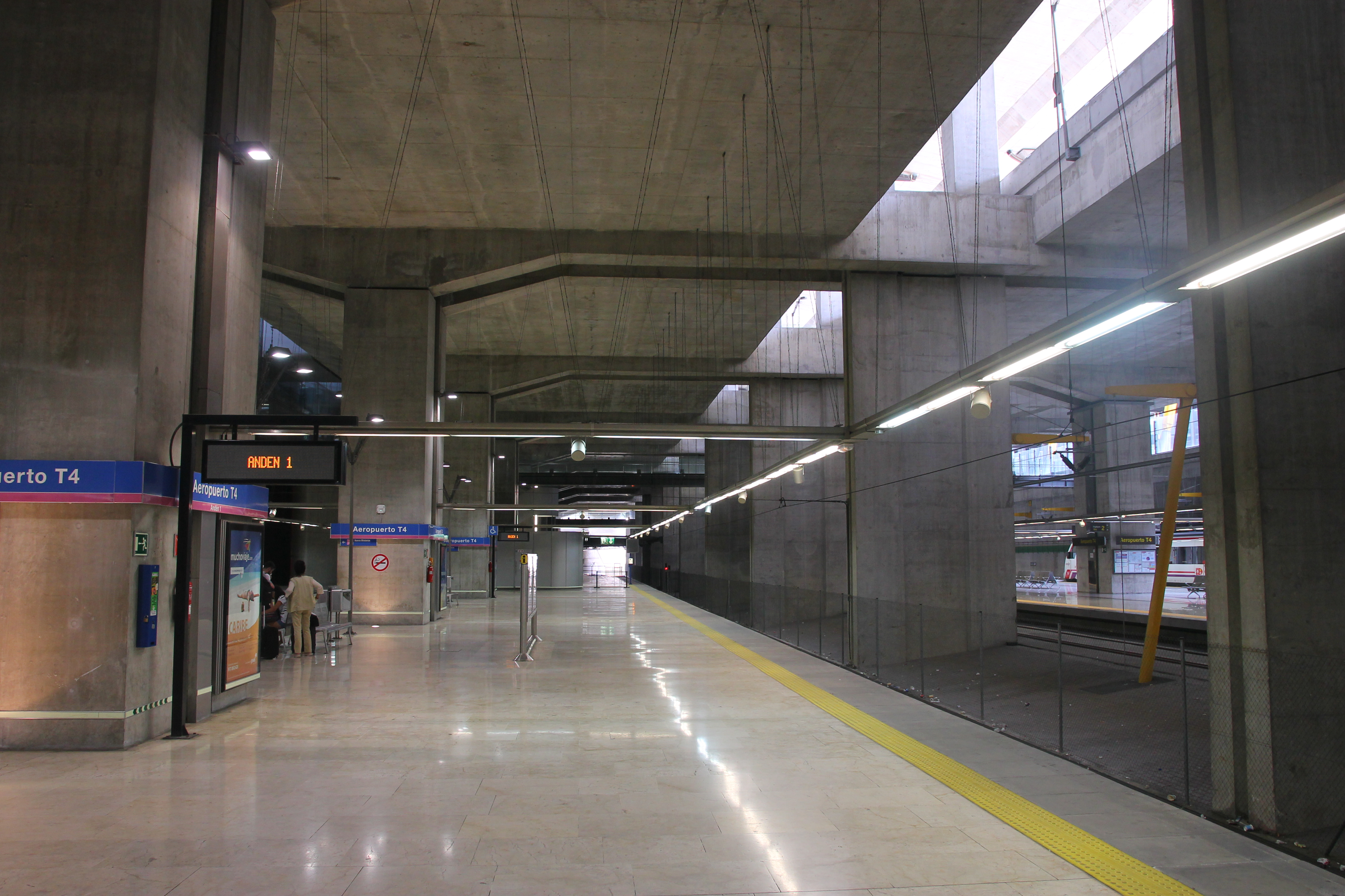 Estación de Aeropuerto T4